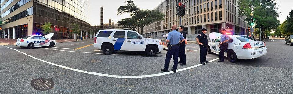 PSPD unit on scene with MPDC and FPS units, holding the perimter of a major incident scene (2015)